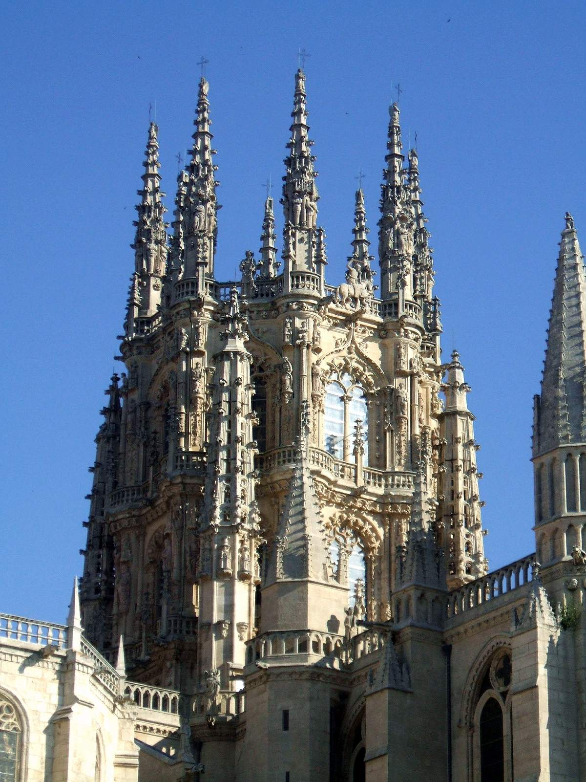 Cimborrio de la Catedral de Burgos (España)